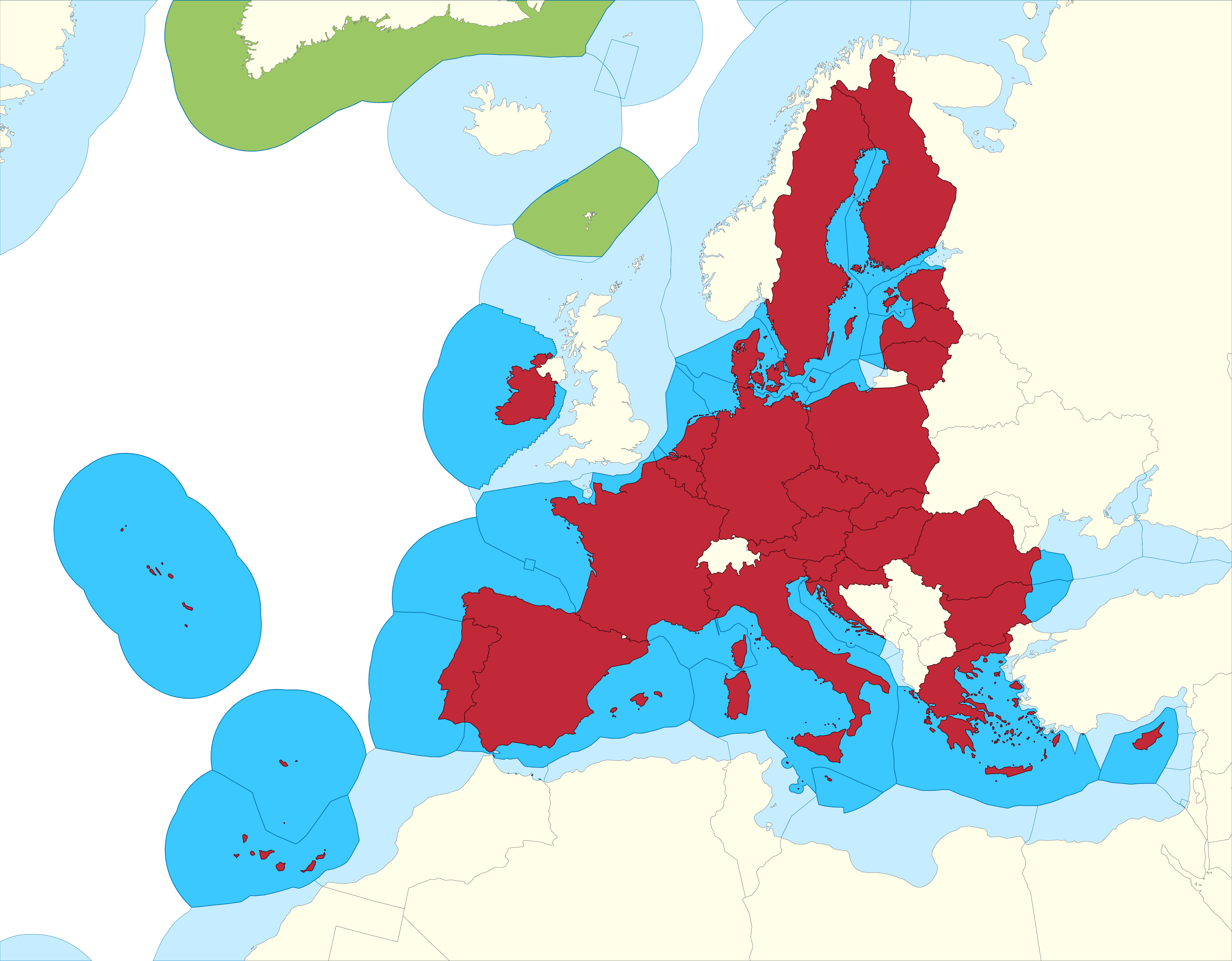 European Union Member states Exclusive Economic Zones